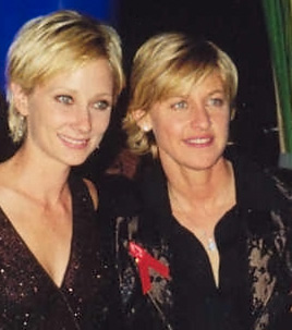 Ellen DeGeneres and Anne Heche at the 1997 Emmy Awards